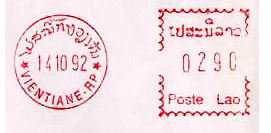 Meter stamp catalog image, Laos type 1